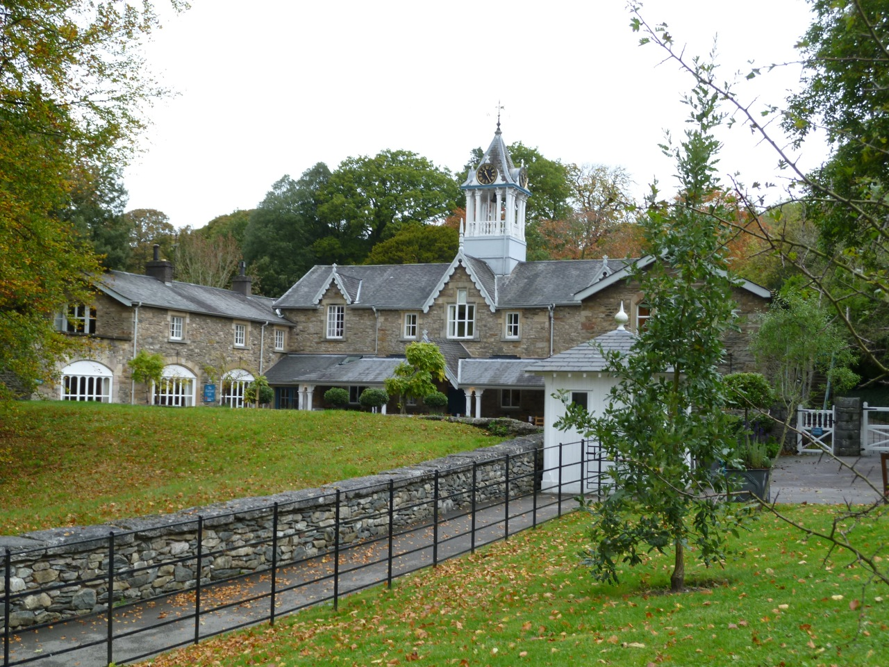 Photograph of the stable block at Holker Hall, now used as a cafe and gift shop